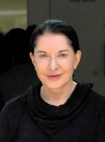 Marina Abramović in front of the Serpentine Gallery